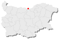 Map of Bulgaria, the red point is the position of Svishtov.